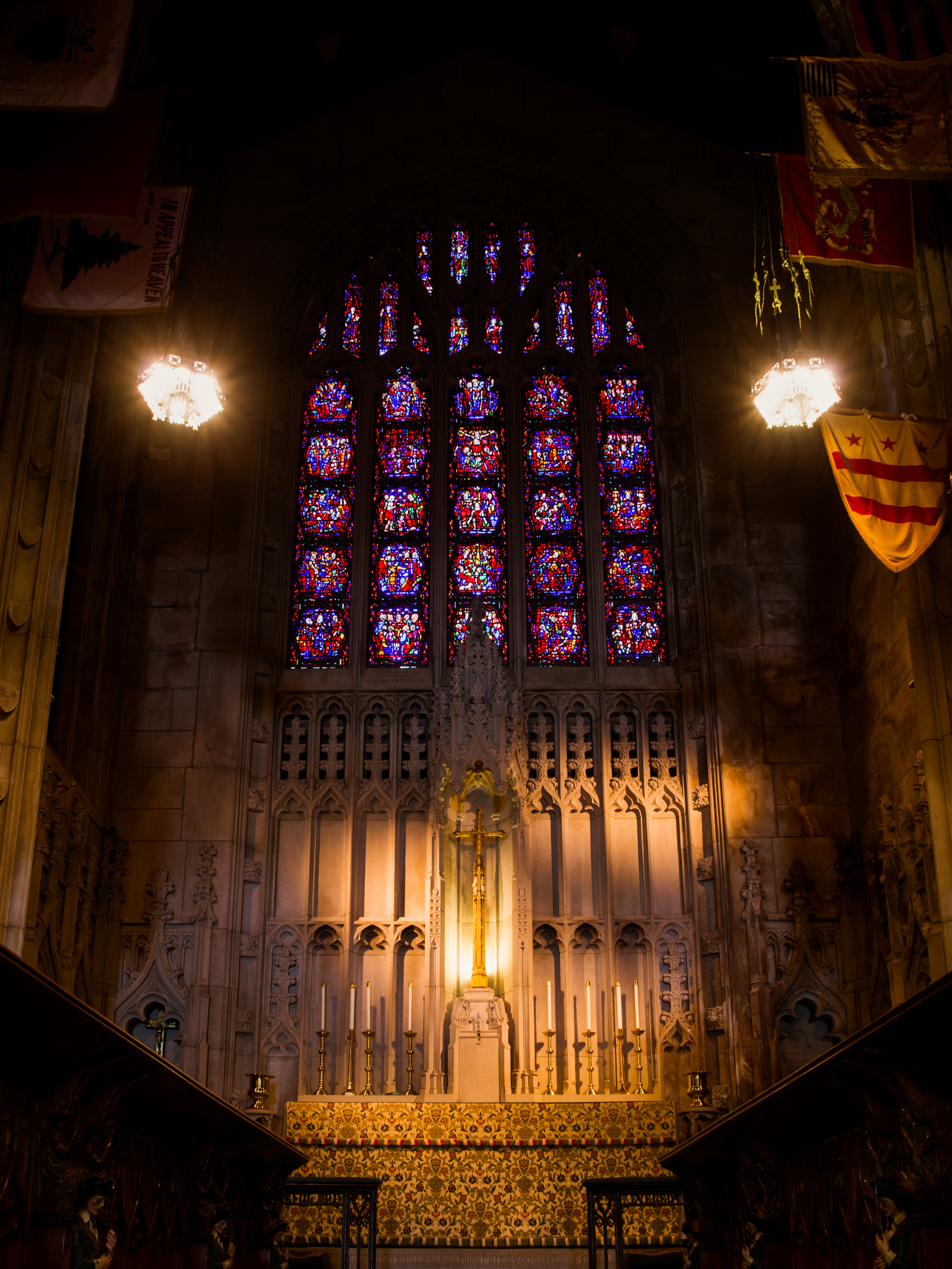 Washington Memorial Chapel, Valley Forge National Park